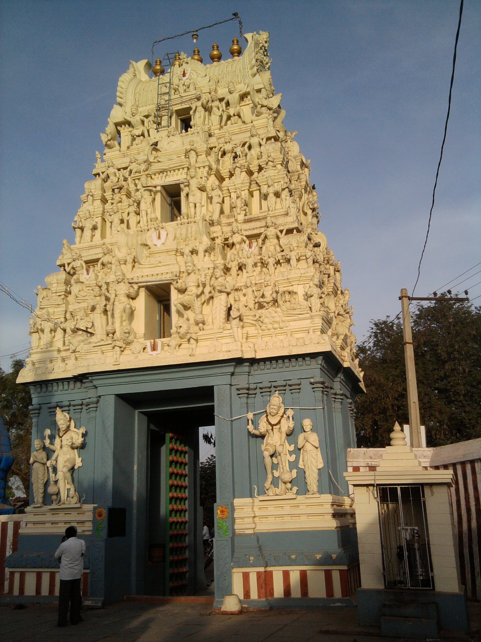 Sri Chennakesava Swami Temple, Vinjamur